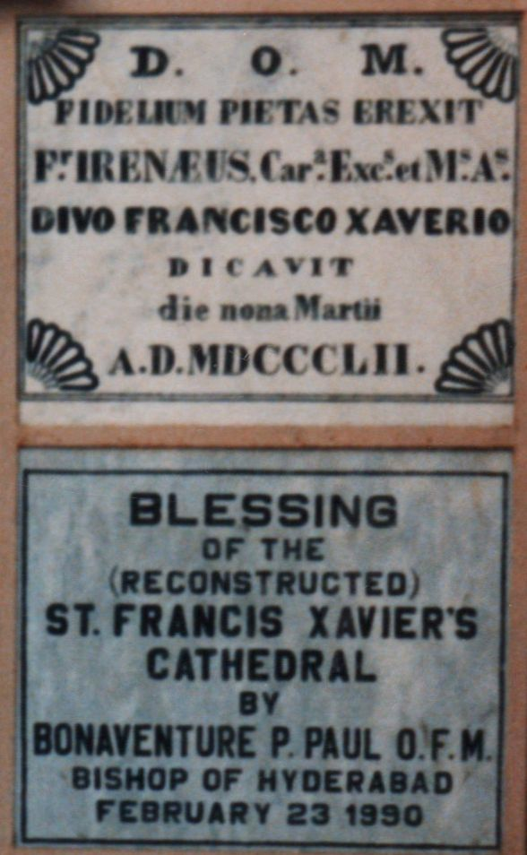 I took this photo of St. Francis Xavier Cathedral, Hyderabad, in 1992.